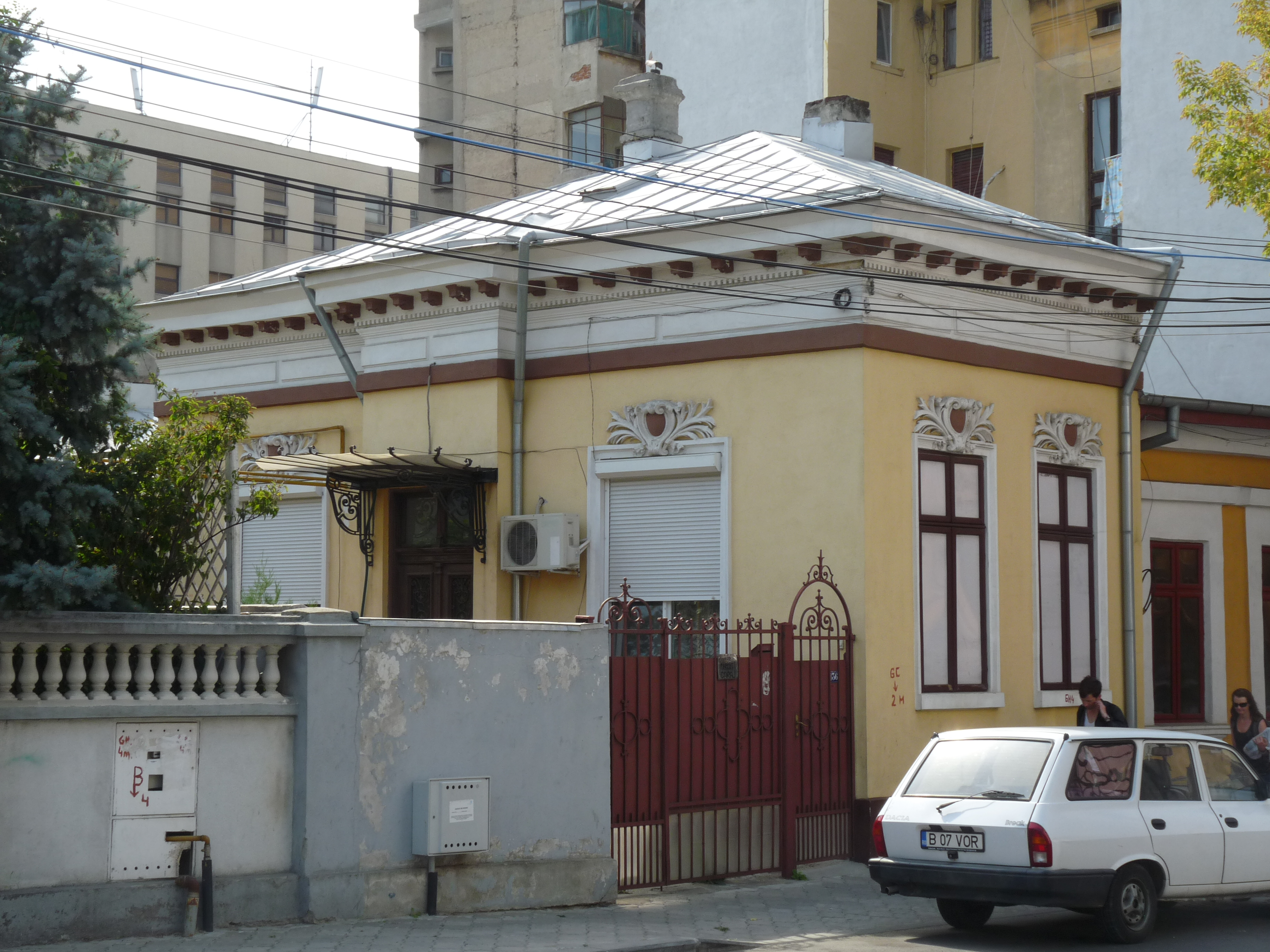 Historic building in Bucharest, Romania, at Eminescu street 136Română: Clădire istorică din București, România, în strada Mihai Eminescu, nr. 136